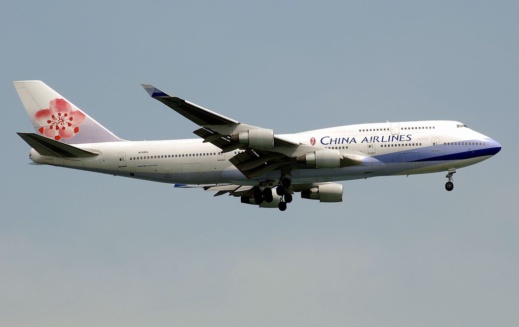 N168CL. A leased Boeing 747-400 on its final approach to 02C. A rare sight in SIN, since CI sends its 737s, A330s and A340s down to Singapore.